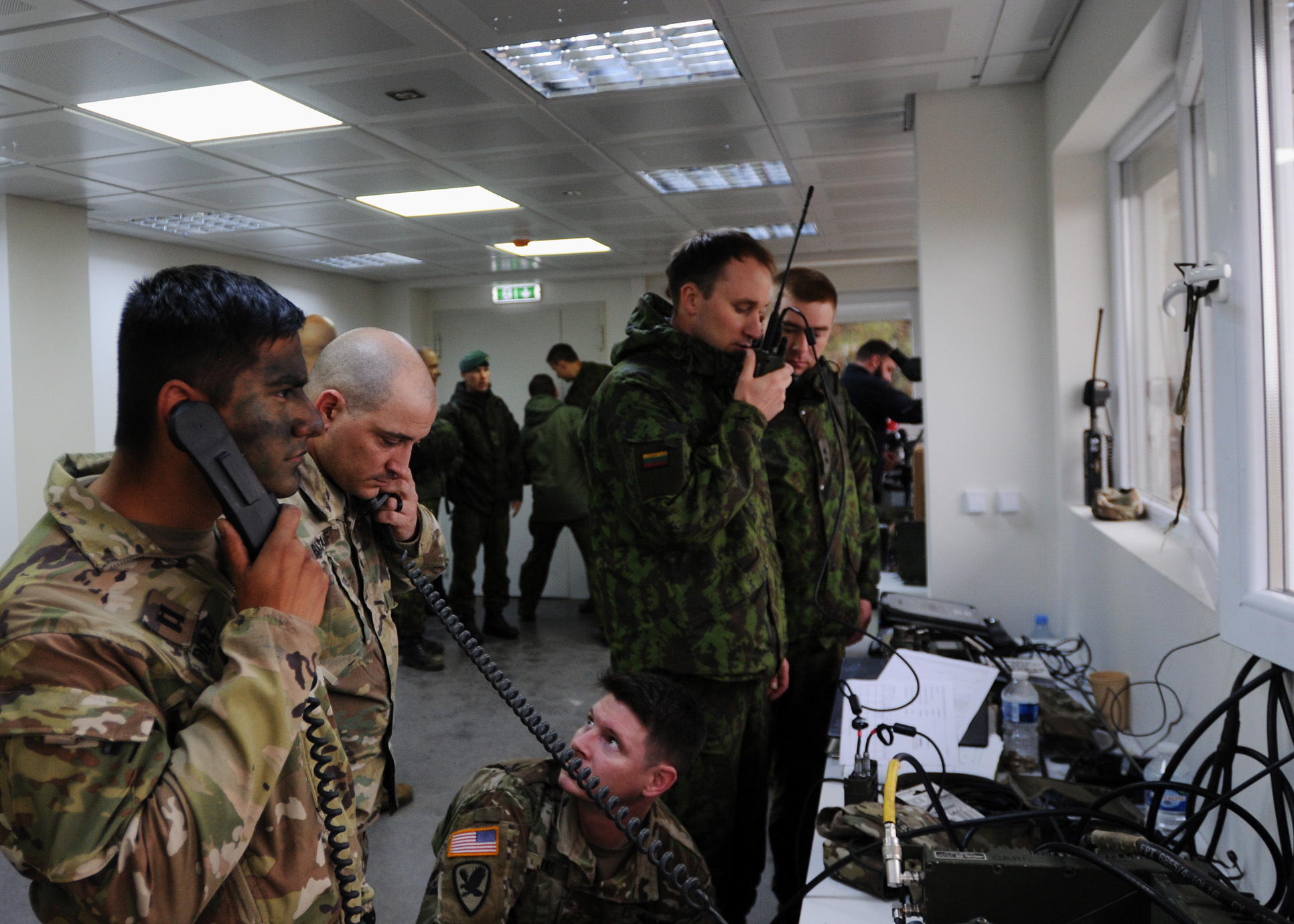 Soldiers assigned to the 1st Squadron, 7th Cavalry Regiment, 1st Armored Brigade Combat Team, 1st Cavalry Division, and the Lithuanian Army’s Mechanized Infantry Brigade “Iron Wolf” communicate during a multinational cavalry-live-fire exercise at Pabrade Training Area, Lithuania, Sept. 24, 2018.